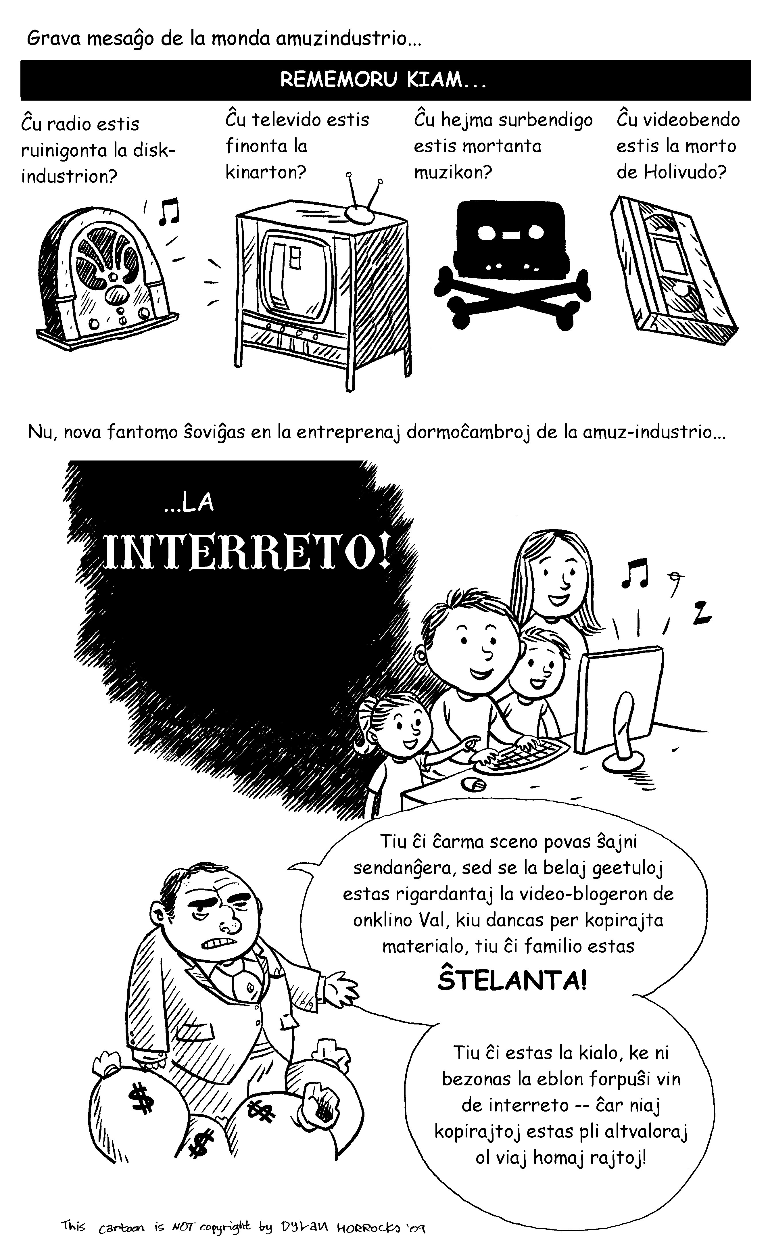 Cartoon about copyright and the internet made by Dylan Horrocks. The english original version was on the main page of The Pirate Bay .